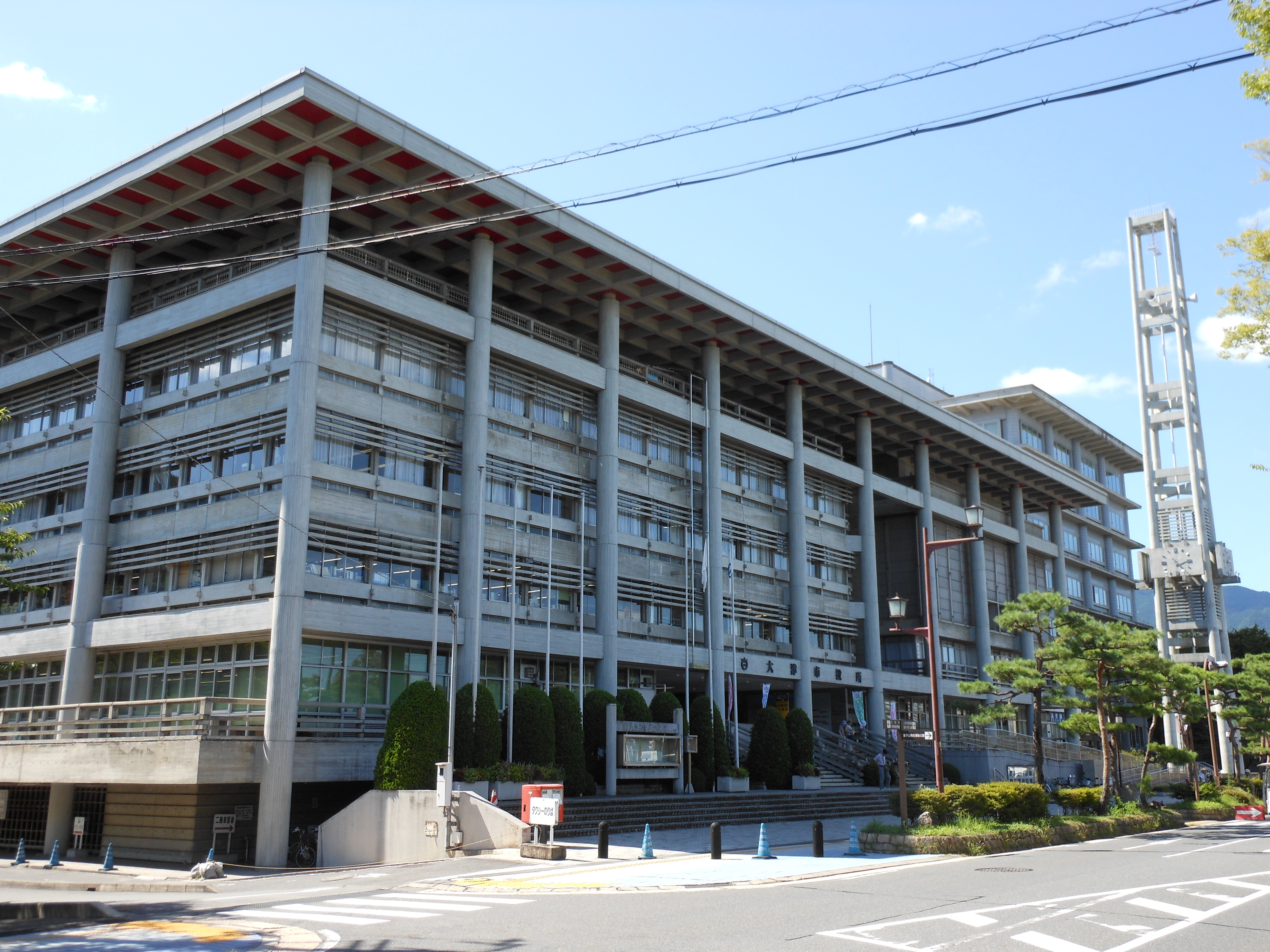 Otsu City Hall,3-1 Goryocho Otsu-City Shiga Japan.